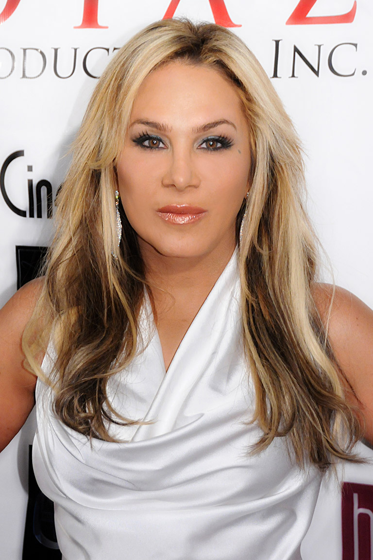 Adrienne Maloof attending Luisa Diaz's Havana White Party in Los Angeles, California on August 27, 2014 - Photo by Glenn Francis and